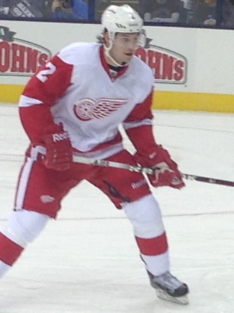 Brendan Smith in warmups before a game against the Columbus Blue Jackets on January 21, 2013.